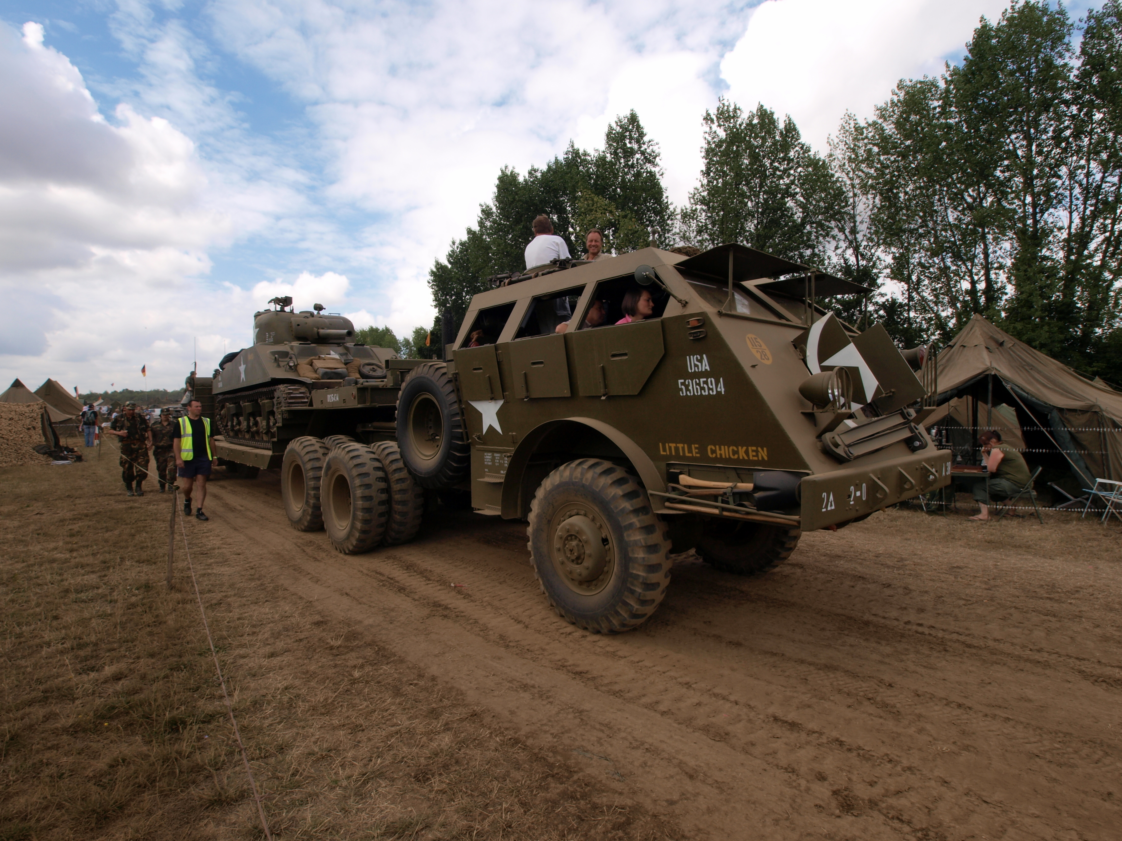 M 26, Pacific Dragon Wagon